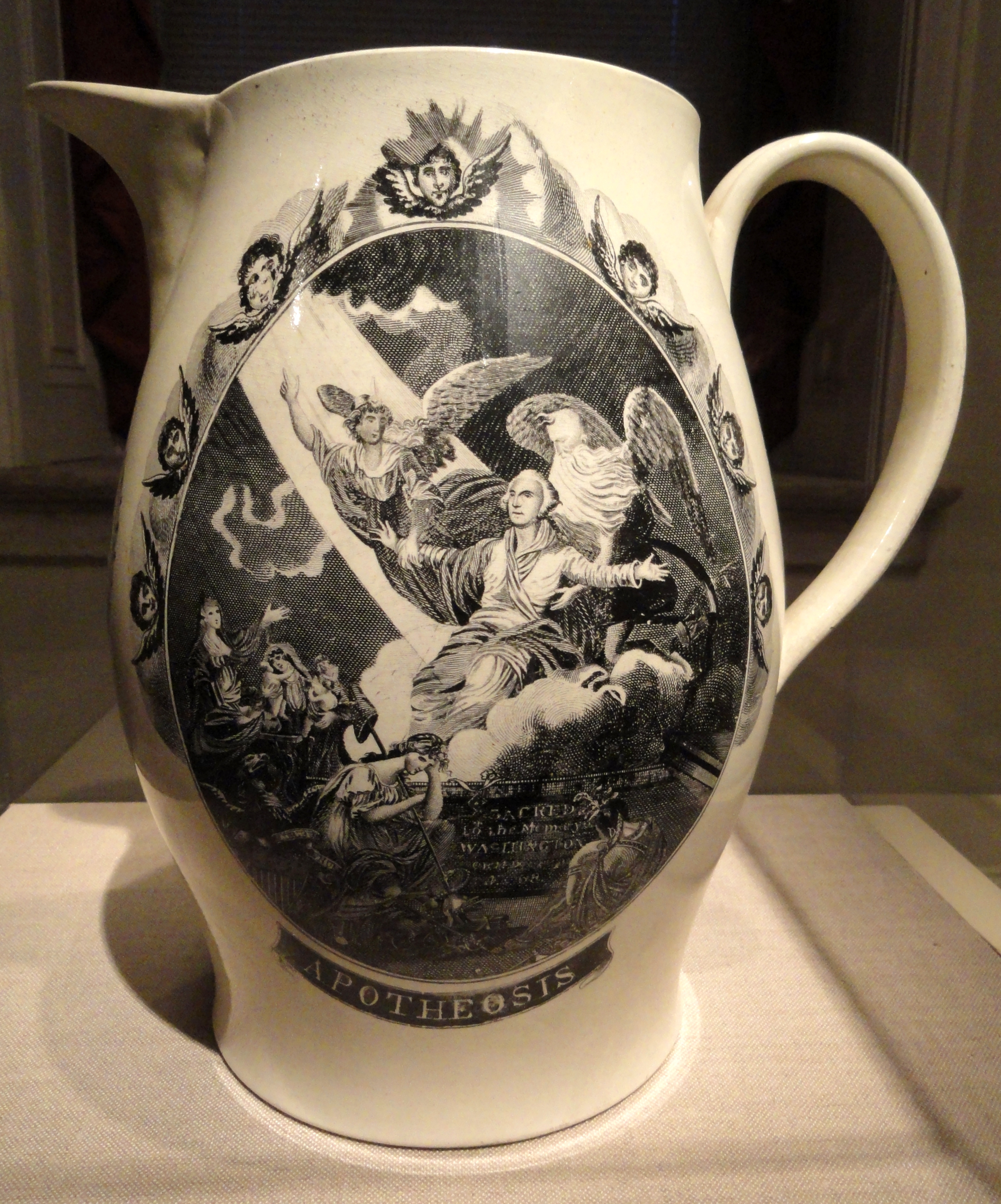 Apotheosis of George Washington, Herculaneum Pottery, c. 1800-1805, John James Barralet, artist. Exhibited in the National Portrait Gallery, Washington, DC, USA. This artwork is old enough so that it is in the public domain.